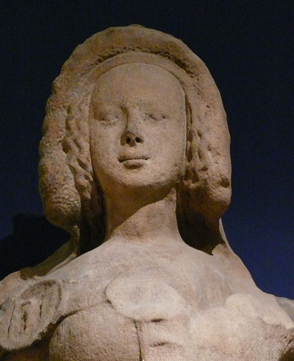 Katharine of Bohemia